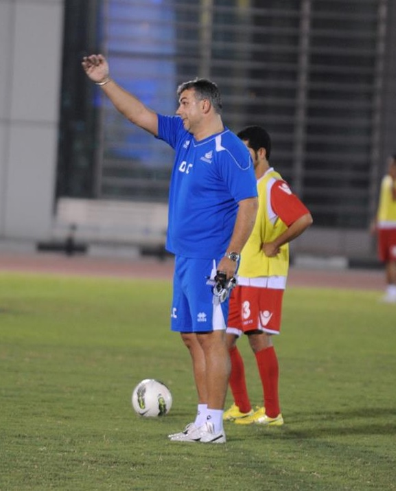 Cosmin Olăroiu (كوزمين), football coach